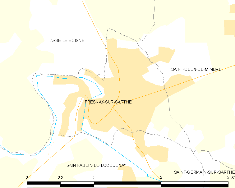 Map of French municipality